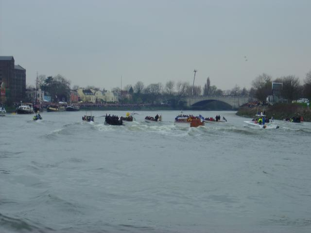 Chiswick Bridge, London